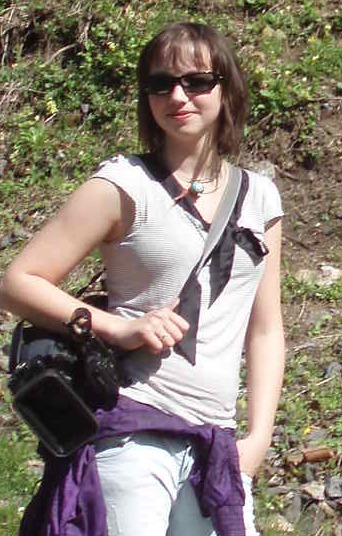 Film director Ms Tereza Nvotová under the Radyně Castle near Pilsen